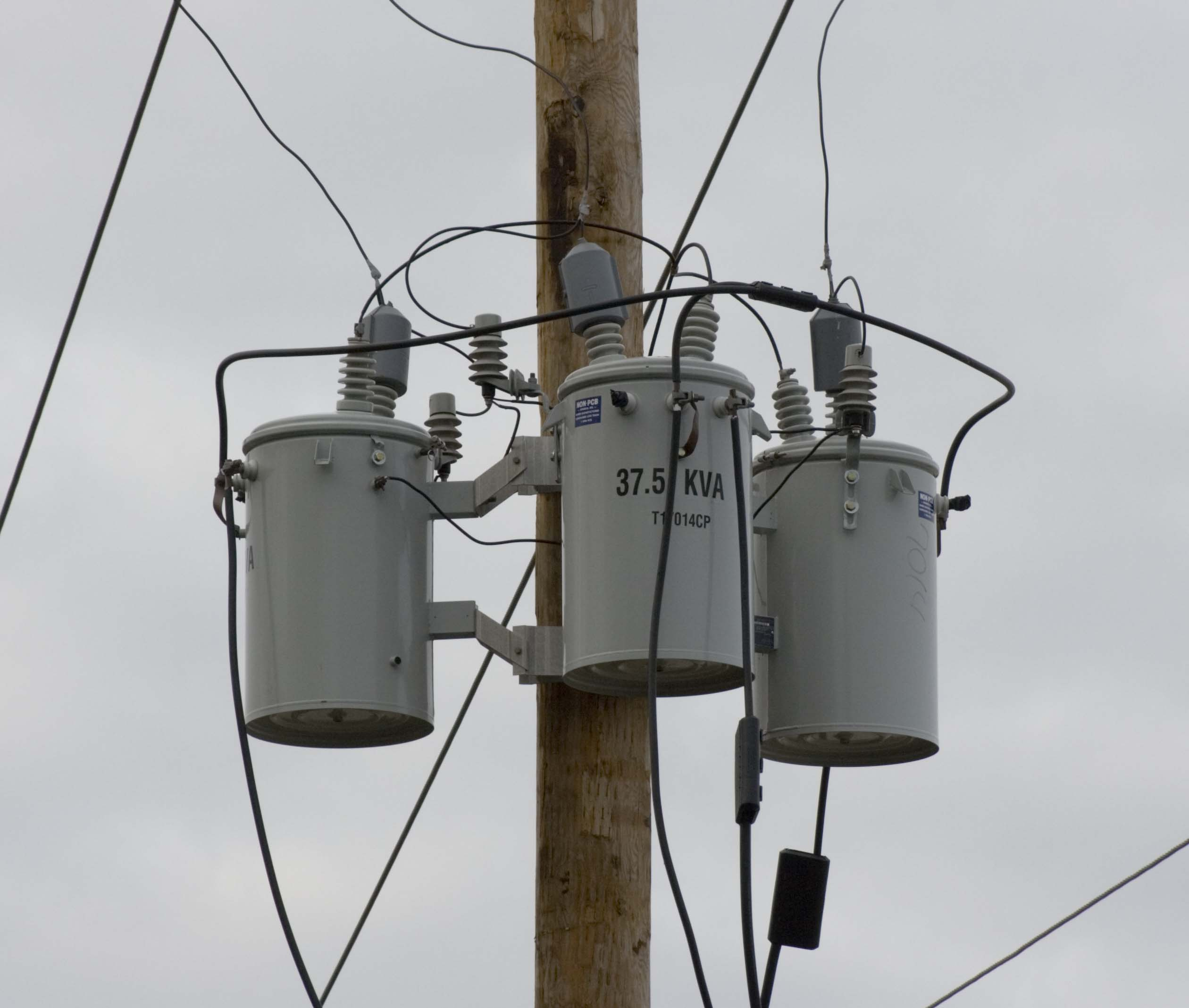 A three-phase utility stepdown transformer bank (37.5 kVA per phase) on a pole behind a business in Niles, Illinois, United States. Three single phase transformers are connected together in a wye configuration to act as a three phase transformer. This is used in the US to provide three phase power at secondary voltages used by commercial customers.